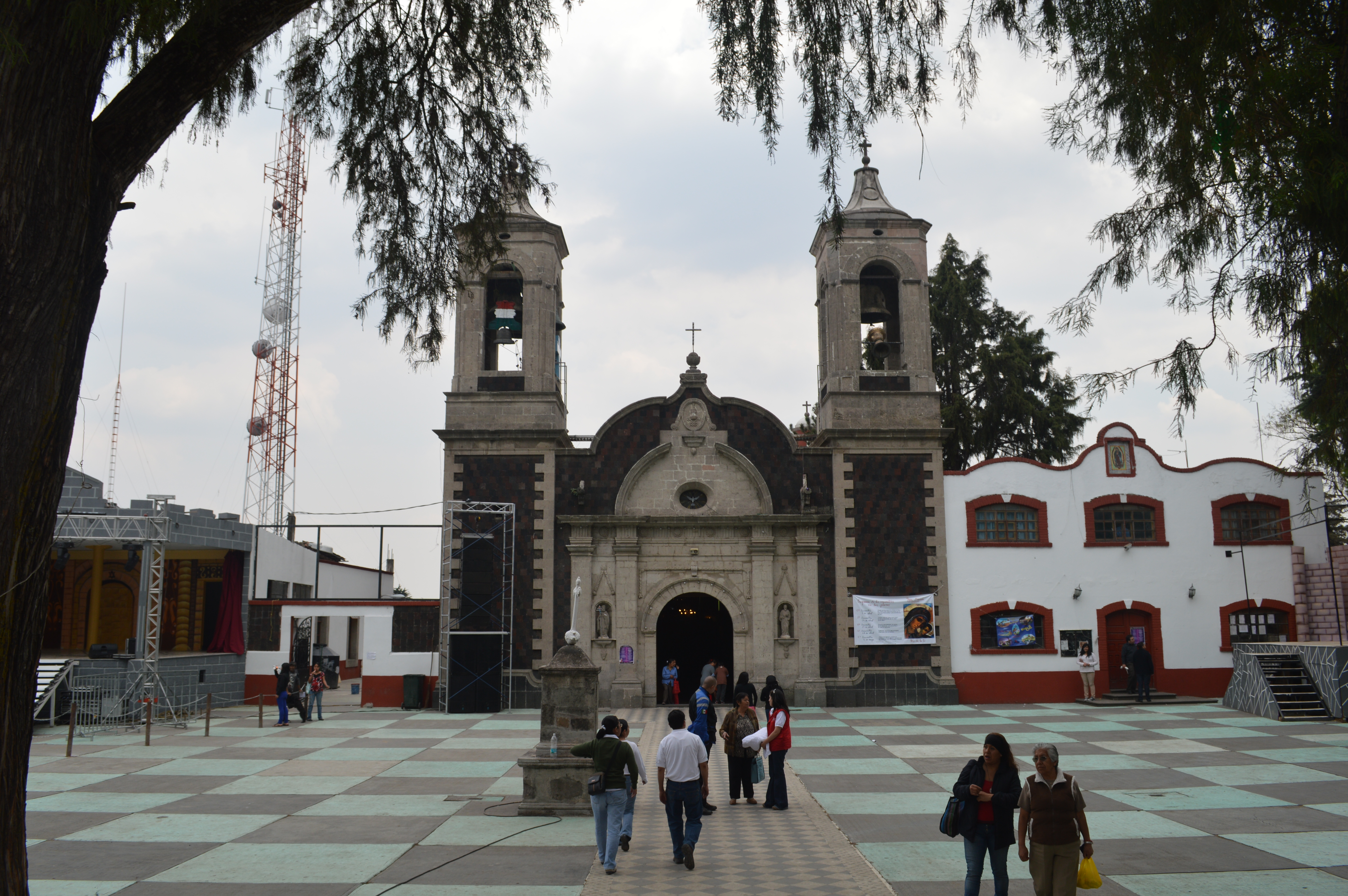 San Pedro church in the historic center of Cuajimalpa in Mexico City